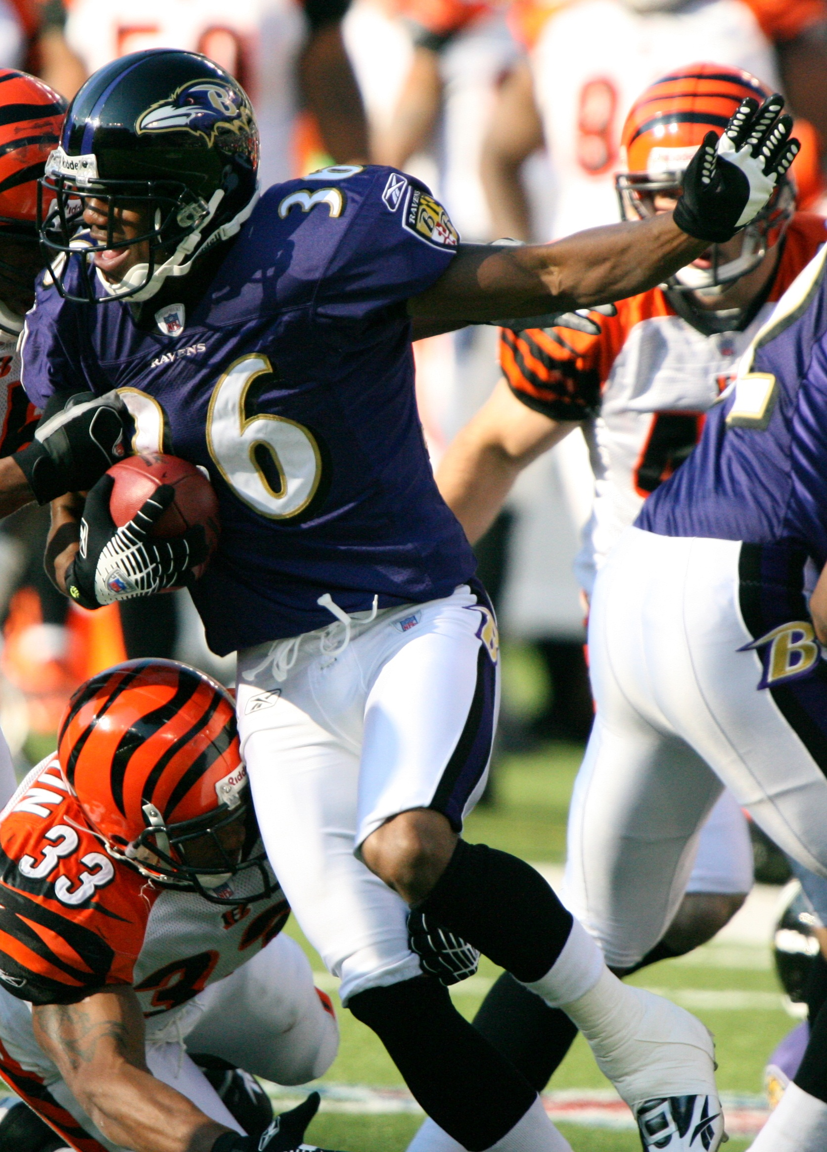 B. J. Sams|B. J. Sams running the football during the November 5, 2006 Baltimore Ravens/Cincinnati Bengals game.